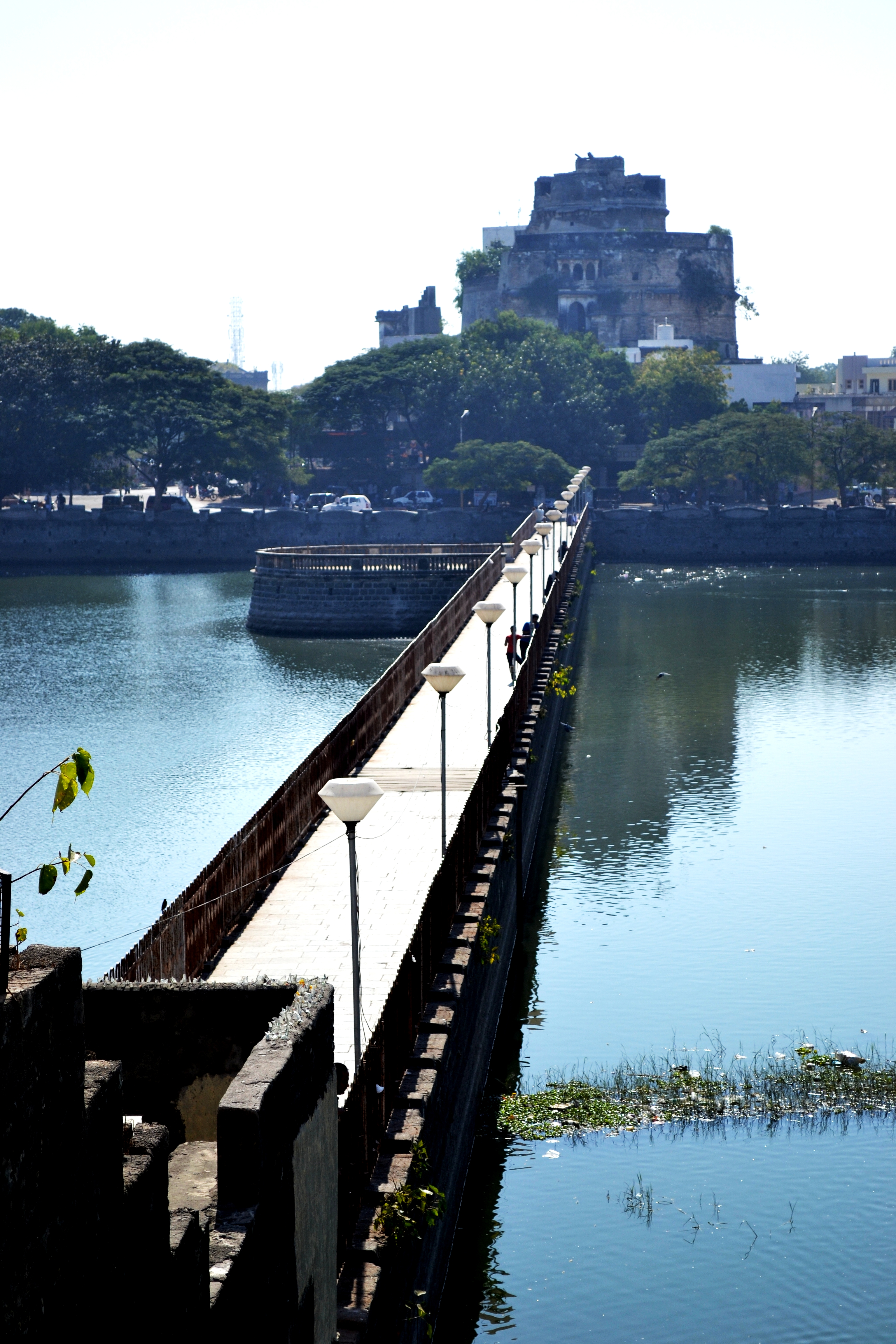 Bhujio Kotho in the city of Jamnagar, Gujarat India.